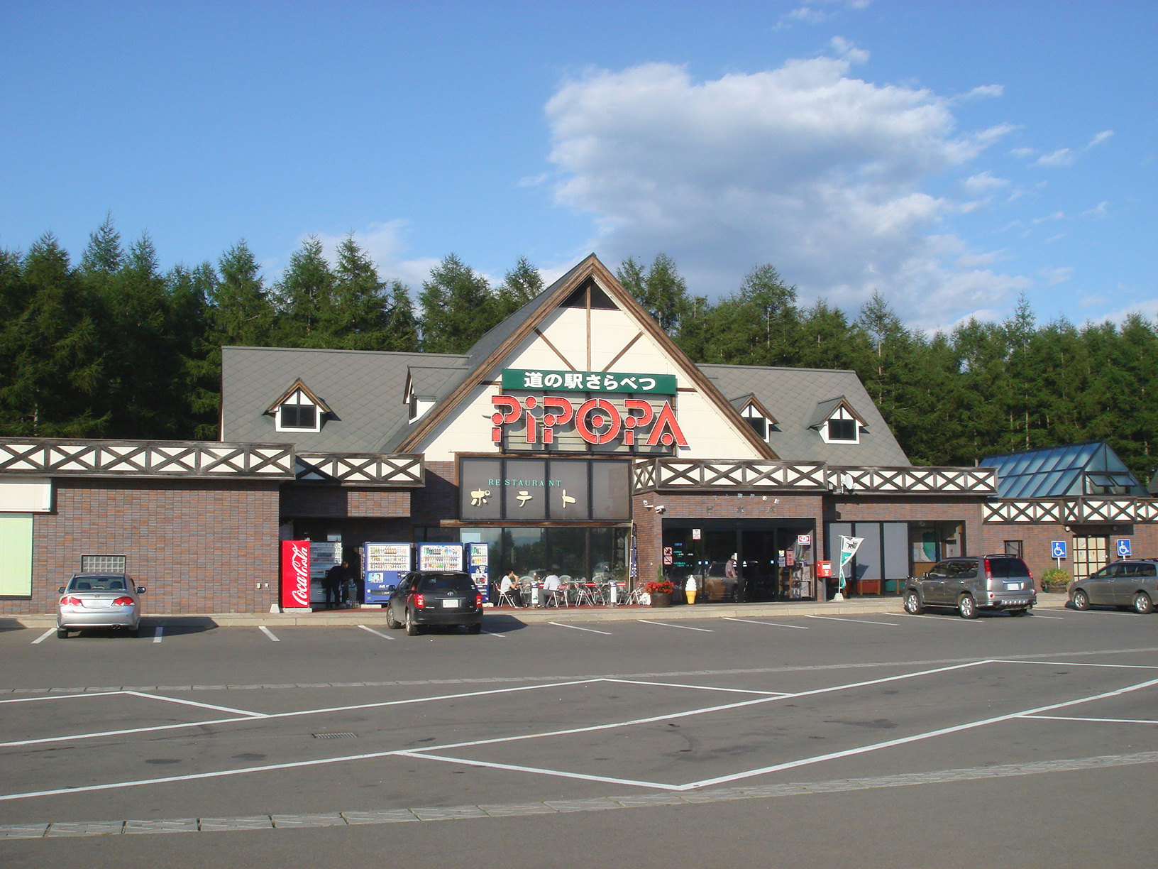 Michinoeki(Roadside Station) Sarabetsu (Sarabetsu, Hokkaidō)